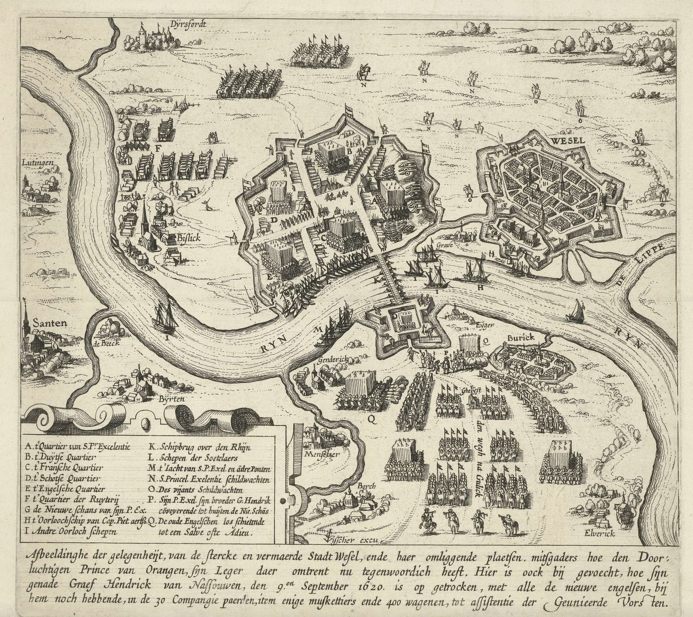 The siege of Wesel by the Dutch troops on 15-23 of August 1620.